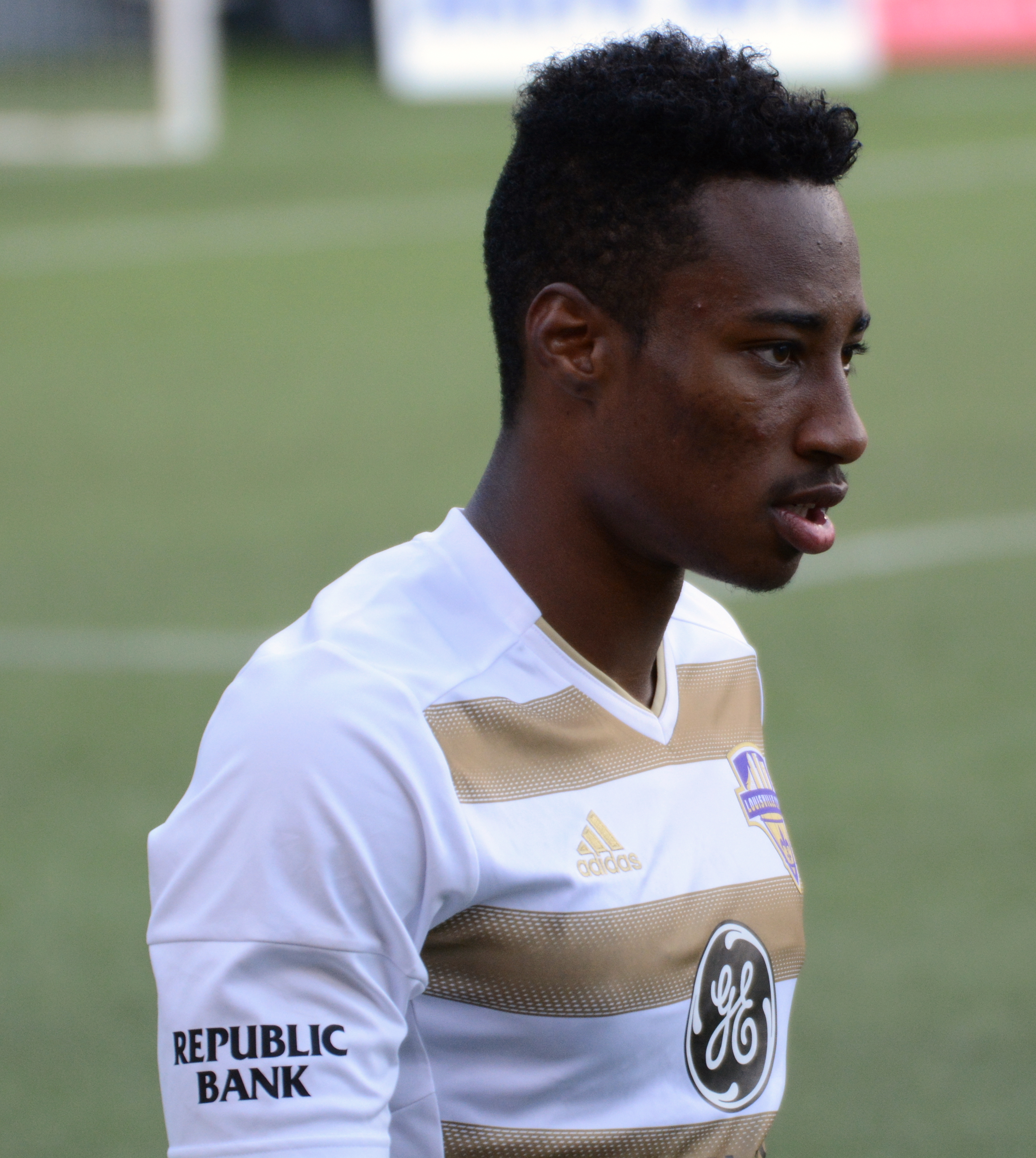 Mark-Anthony Kaye, a Canadian footballer playing for Louisville City FC, walking down the sideline to his team's bench just before the match's opening ceremony. Taken at a 2017 U.S. Open Cup Third Round match between FC Cincinnati and Louisville City FC at Nippert Stadium in Cincinnati, Ohio on May 31, 2017.